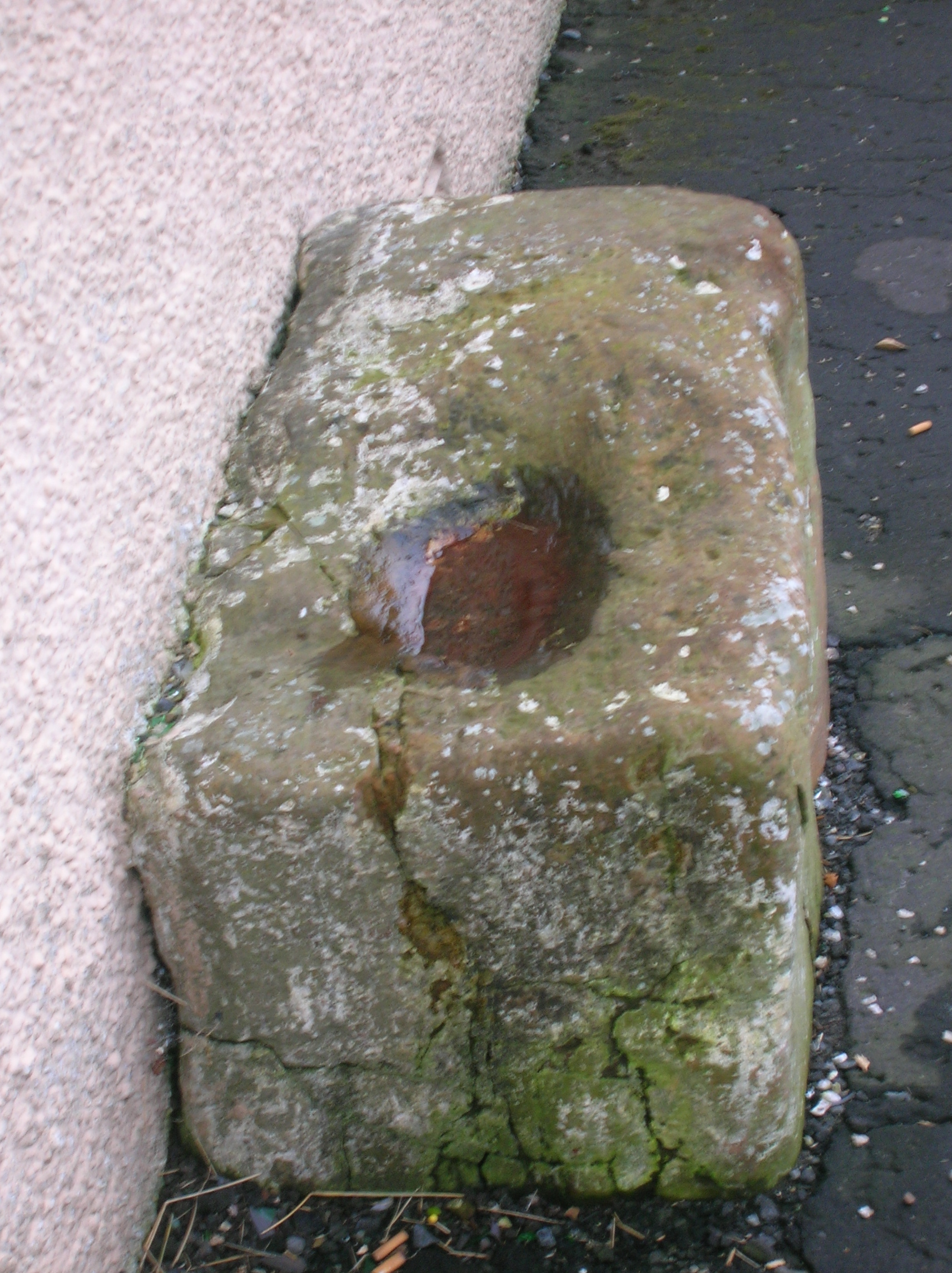 A mounting stone in Kilmaurs, East Ayrshire, Scotland.